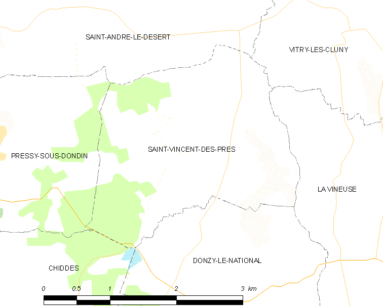 Map of French municipality